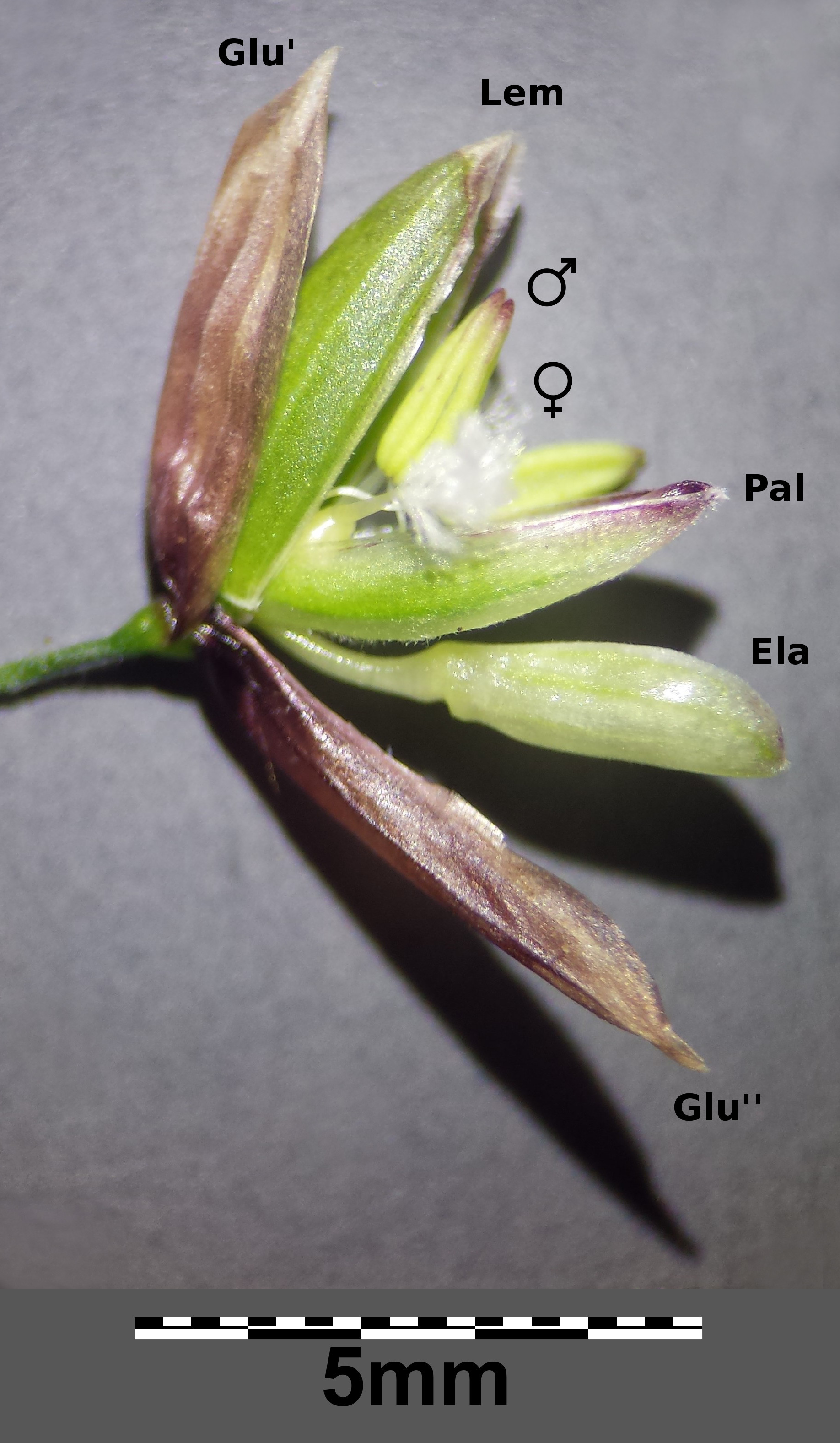 Spikelet Glu = Glumae Lem = Lemma Pal = Palea Ela = Elaiosome Taxonym: Melica uniflora ss Fischer et al. EfÖLS 2008 ISBN 978-3-85474-187-9 Location: Praunsberger Wald near Niederhollabrunn, district Korneuburg, Lower Austria - ca. 300 m a.s.l. Habitat: dedicious forest